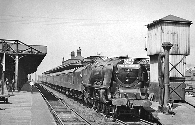 Wigan North Western Station with the Up Caledonian. View NW, towards Preston, Carlisle and Glasgow; ex-London & North Western West Coast Main Line. This is back in 1957, with the Up 'Caledonian', Glasgow Central to London Euston 'crack' express - faster even than the 'Royal Scot', taking only seven hours; 'All Seats Reserved', so aimed at the 'Business' clientele ('Executive' in modern parlance). The locomotive is 'Coronation' 4-6-2 No. 46242 'City of Glasgow' (appropriately) - a splendid sight.